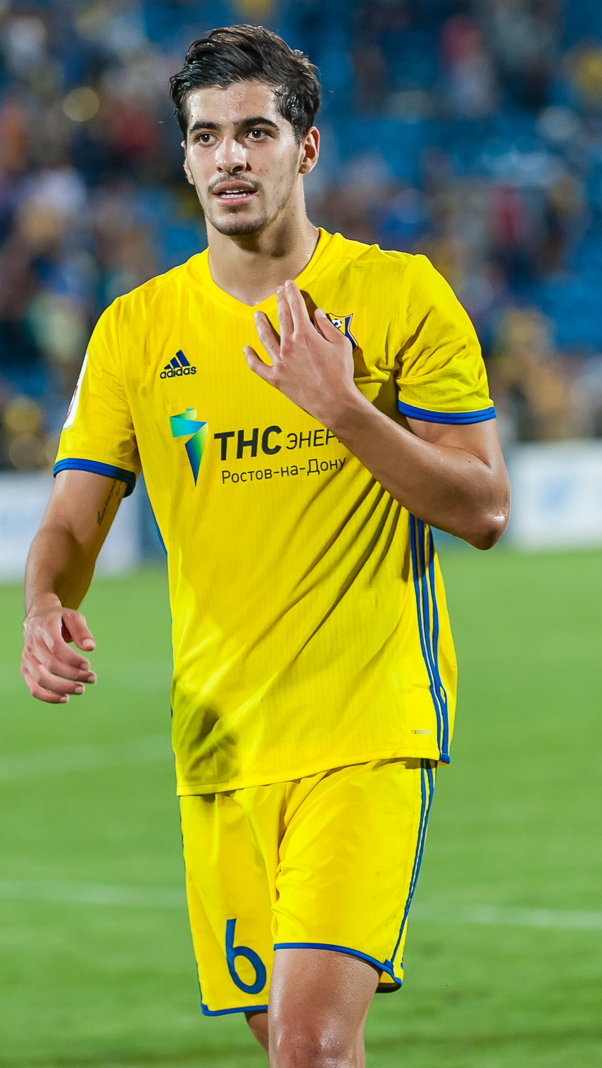 Saeid Ezatolahi with FC Rostov in the game against FC Tom Tomsk.